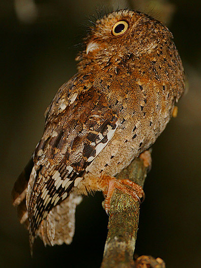 Mainland Africa's smallest and rarest owl. This tiny wee owl is restricted to a few islands of woodland in the Usambara hills of Tanzania and in the Dakatcha forest and Arabuko-Sokoke forests of coastal Kenya. This image is of a hunting bird found by David Ngala in pitch darkness. Focus was achieved with a small hand-torch and the image was taken with flash (diffused through a handkerchief to prevent startling the bird).